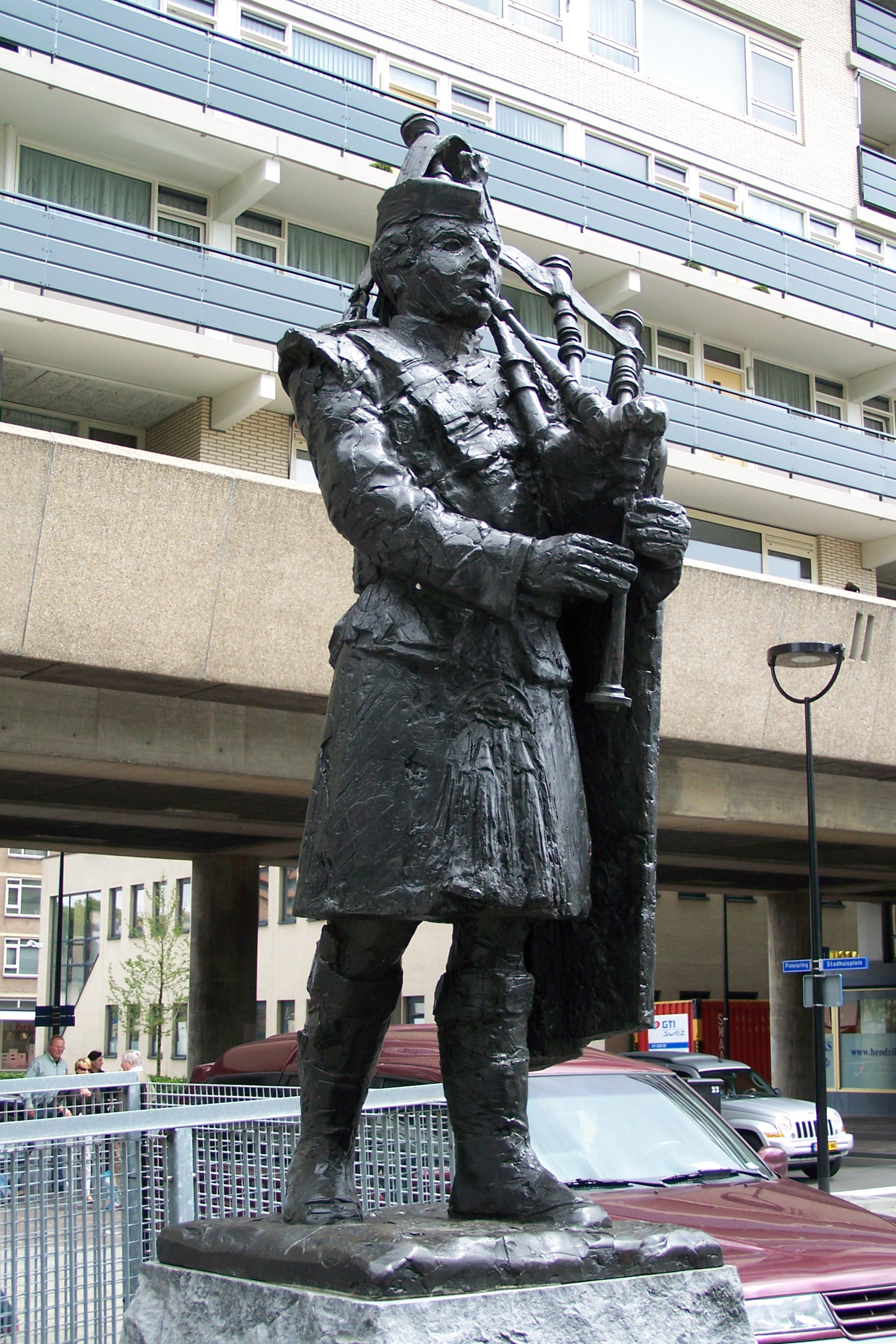 Monument for the 15th Scottish Division, liberator of Tilburg in 1944. Made by Frans Broers in 1989. Relocated in 2005 at the Stadhuisplein in Tilburg.